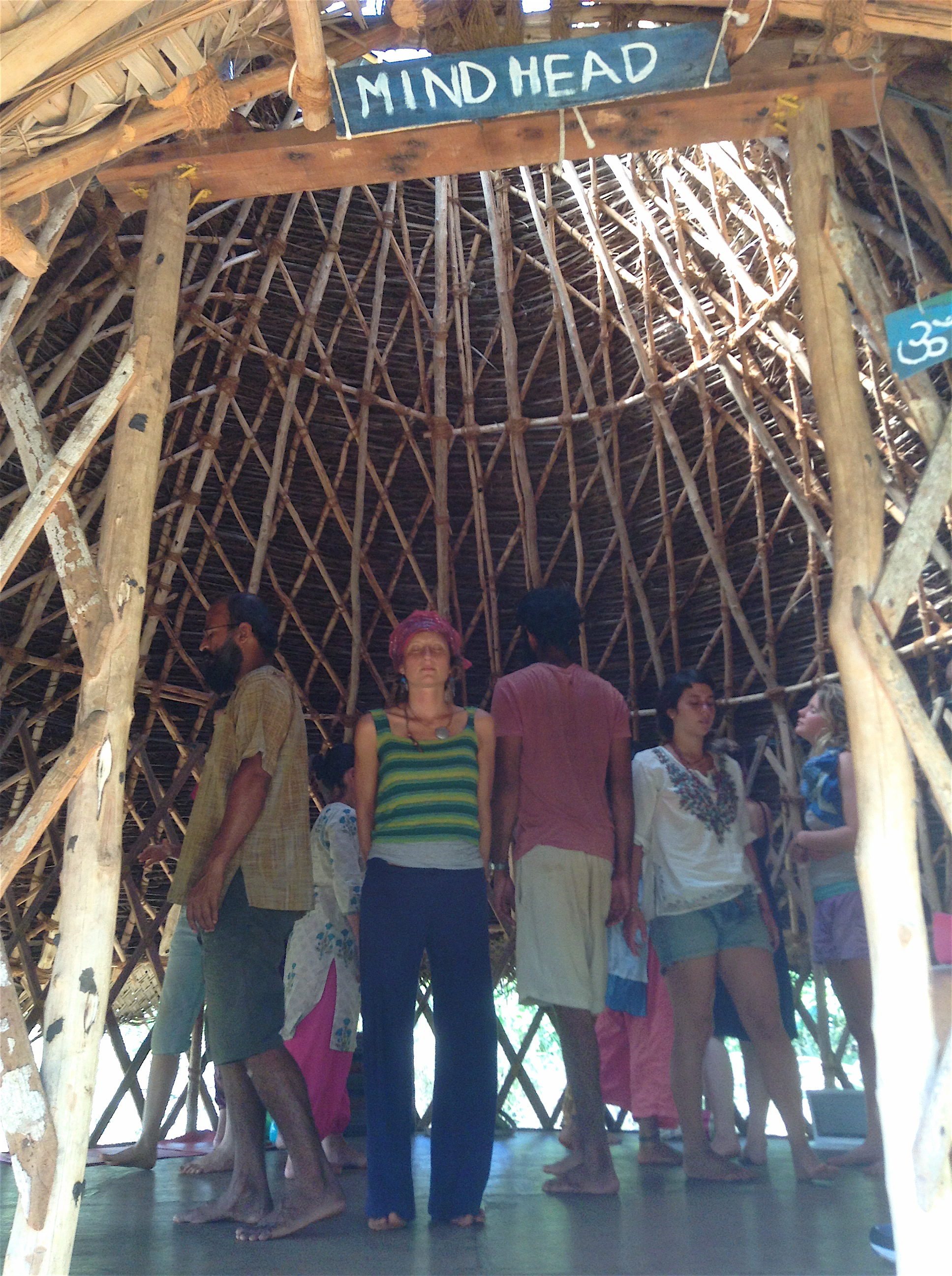 Theatre workshop in Sadhana Forest 2014